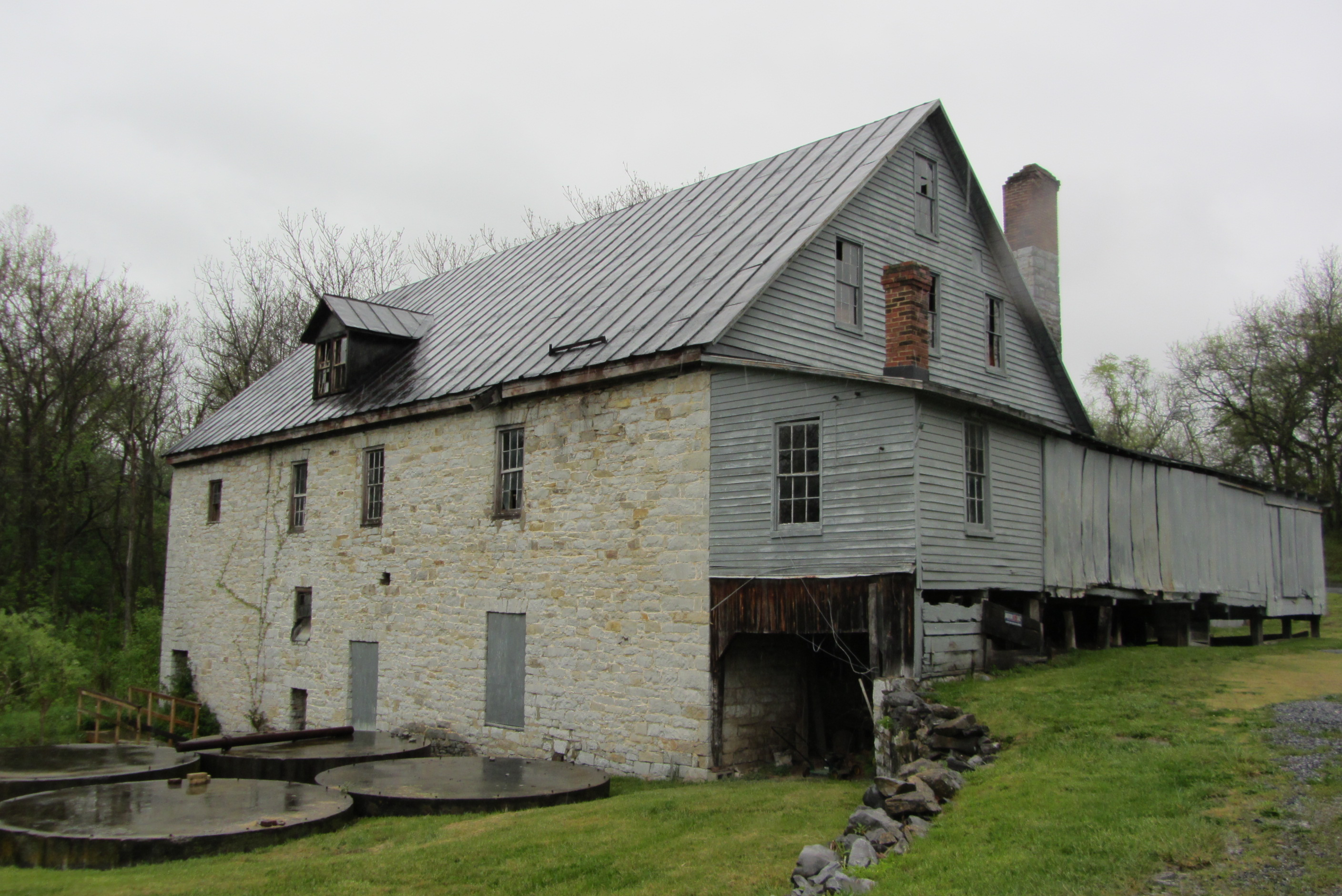 Springdale Millhouse, Bartonsville, Frederick County, Virginia Object location39° 06′ 34″ N, 78° 12′ 23″ W